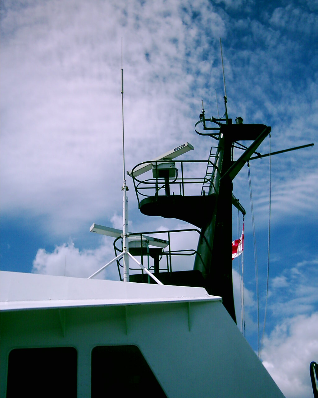 Two Decca BridgeMaster II radar transceiver and antennas mounted on the mast of a BC Ferries vessel.